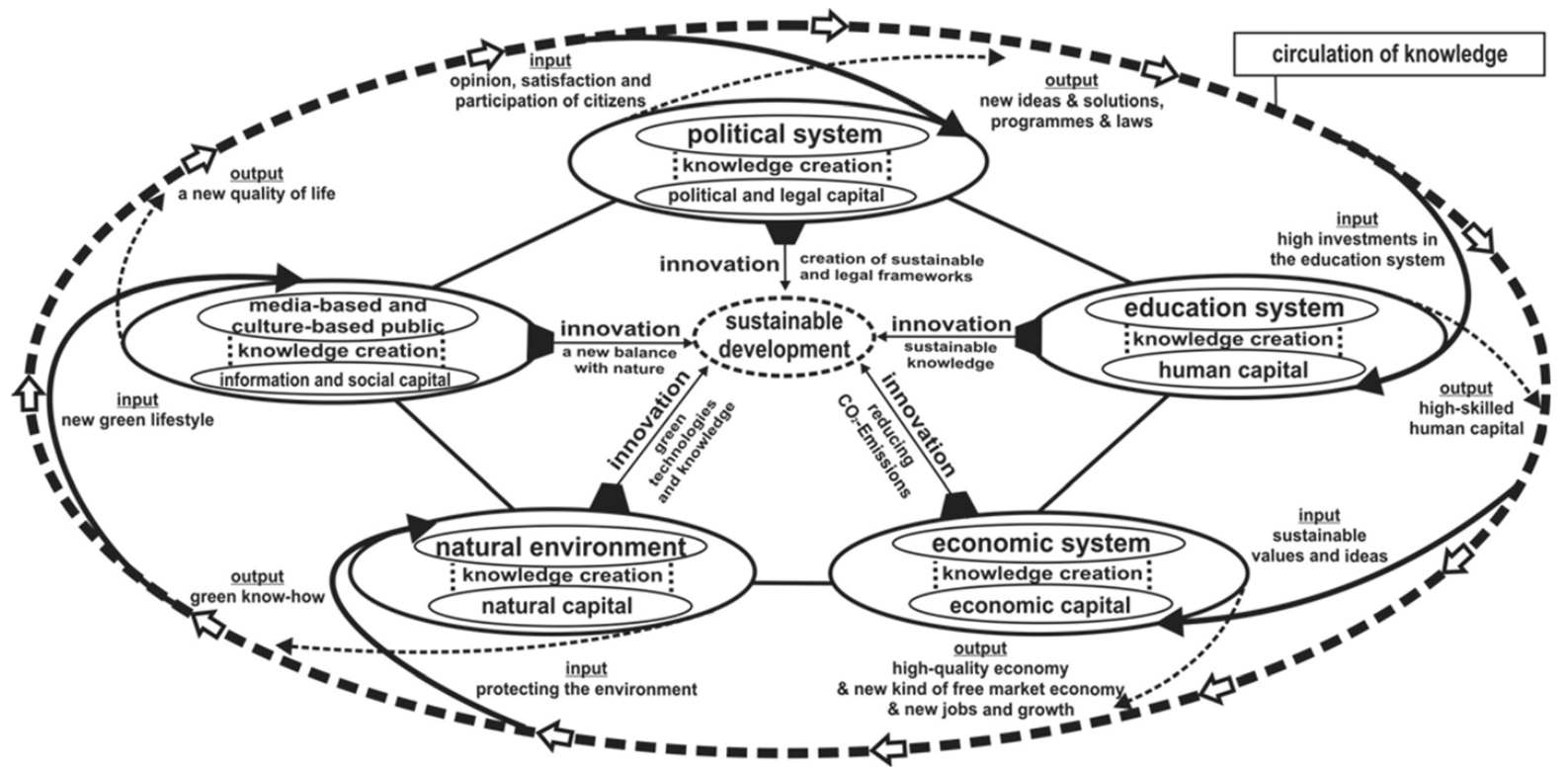 Effects of Investment in Education Sustainability in Quintuple Helix